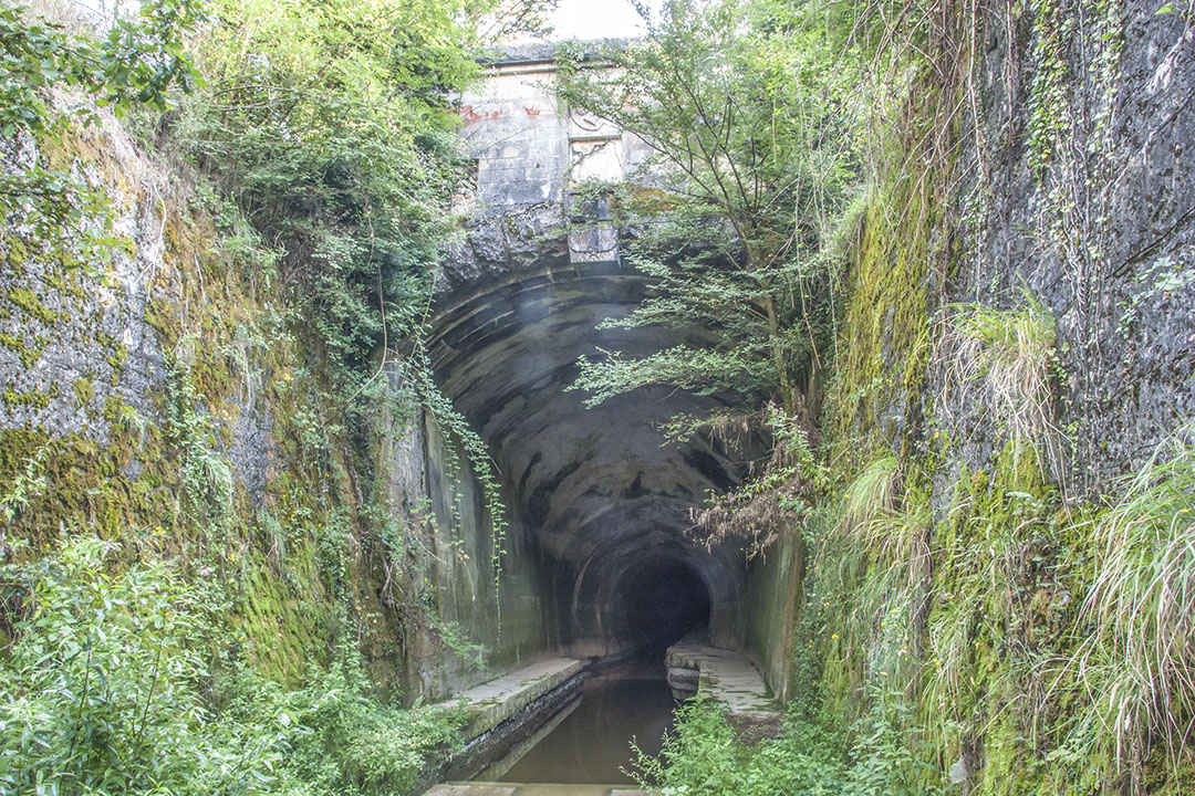 The tunnel drainage Boljunčica in sea